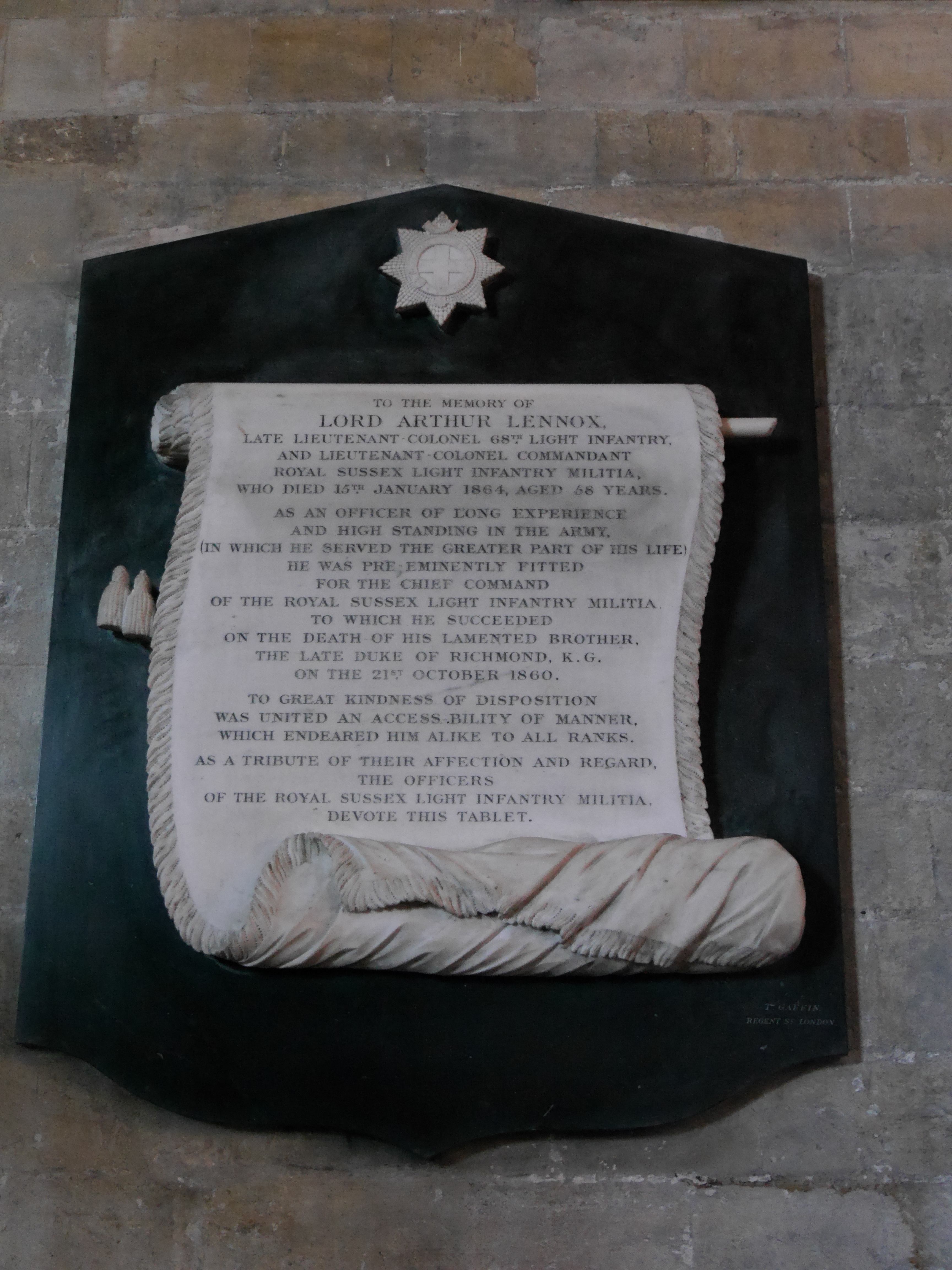 Chichester Cathedral, July 2015